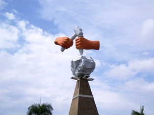 landmark in Batu Pahat, Johor, Malaysia.